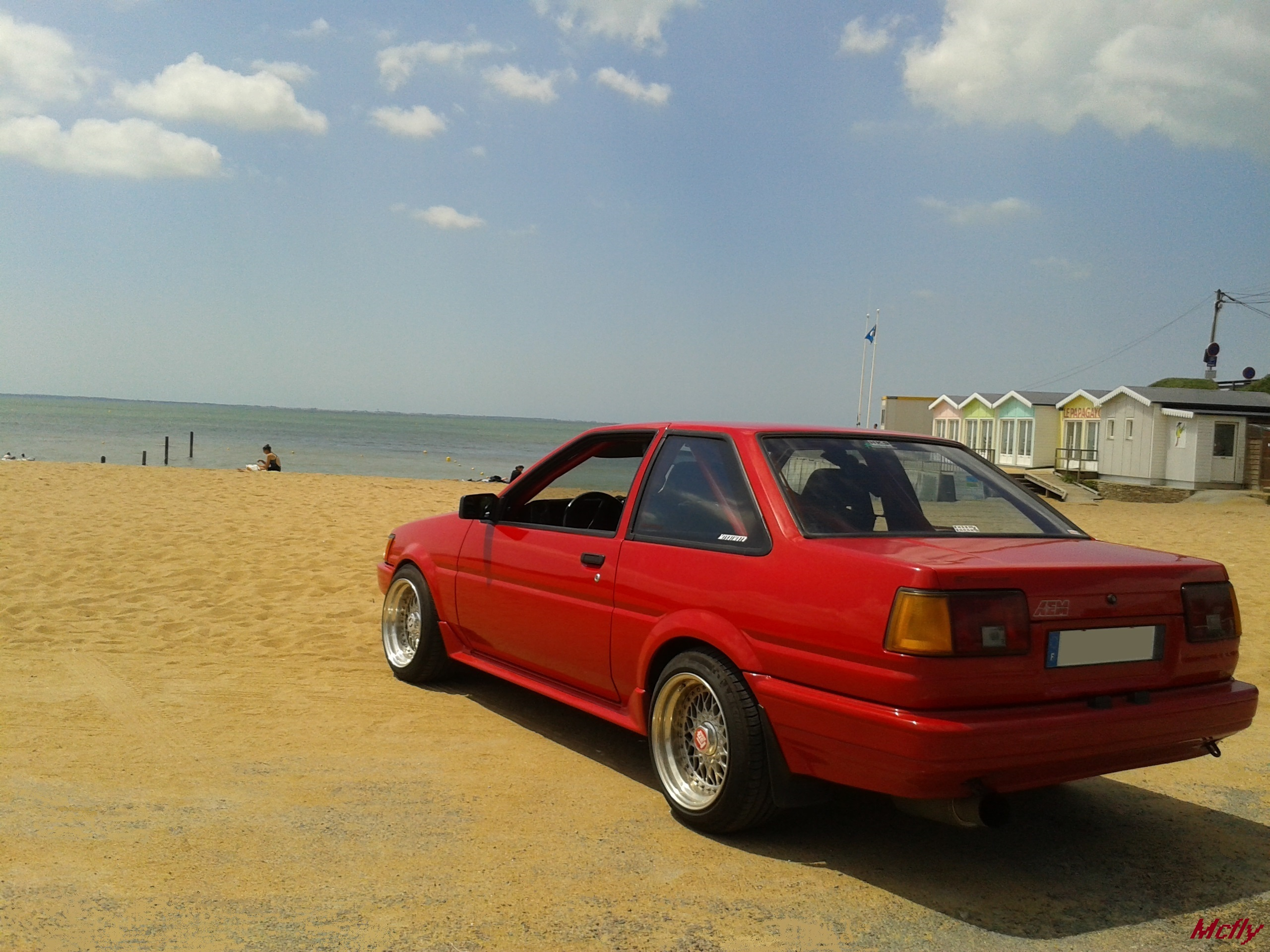 coupe levin